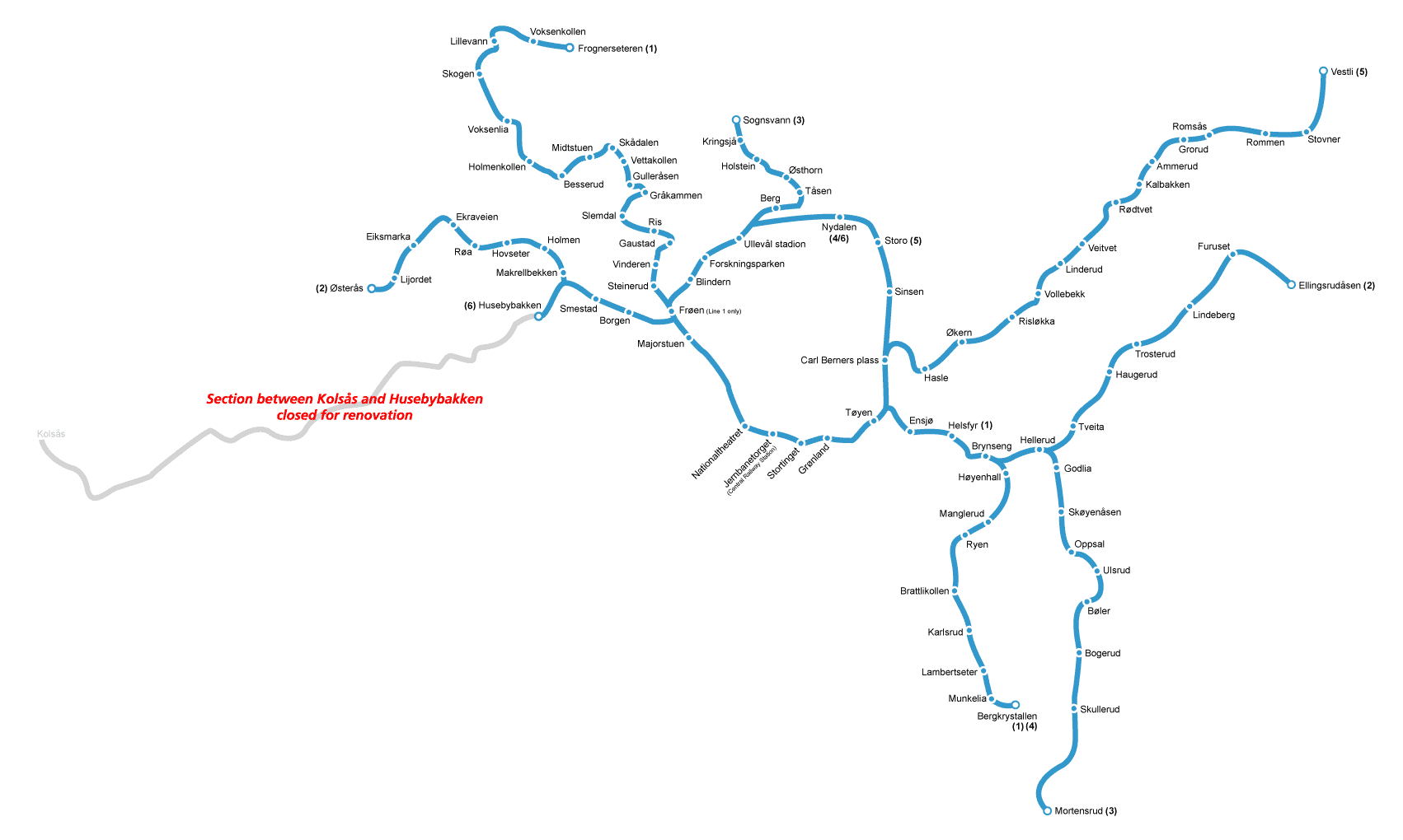 Geographically accurate map of the Oslo Underground network.